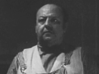 Harvey Clark, from the public domain movie A Shriek in the Night (1933).